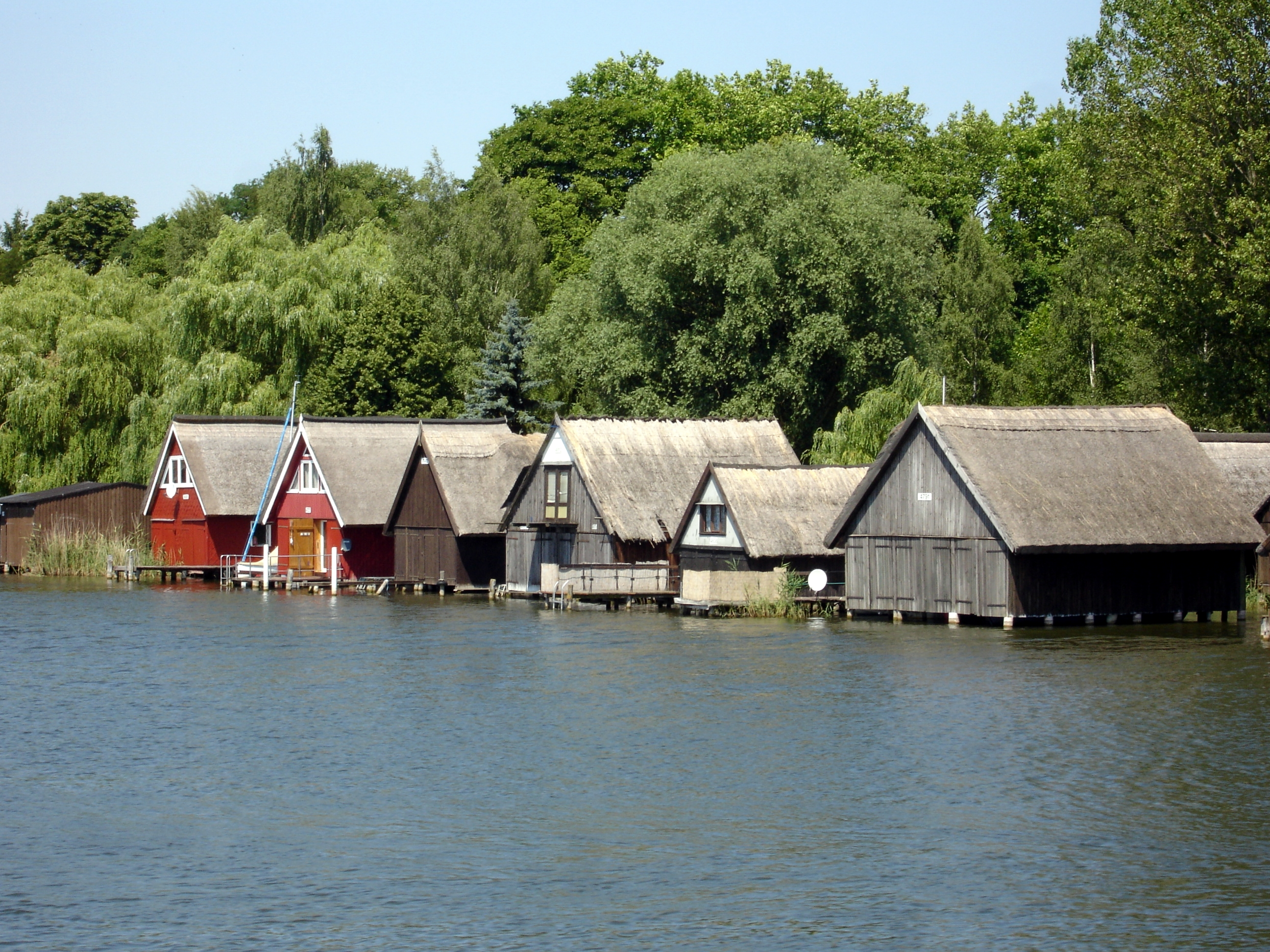 Boathouses in Binnensee (part of the lake Müritz at Röbel/Müritz), Mecklenburg-Vorpommern, Germany